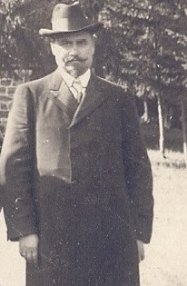 Bulgarian politican Todor Krastev (1865-?).